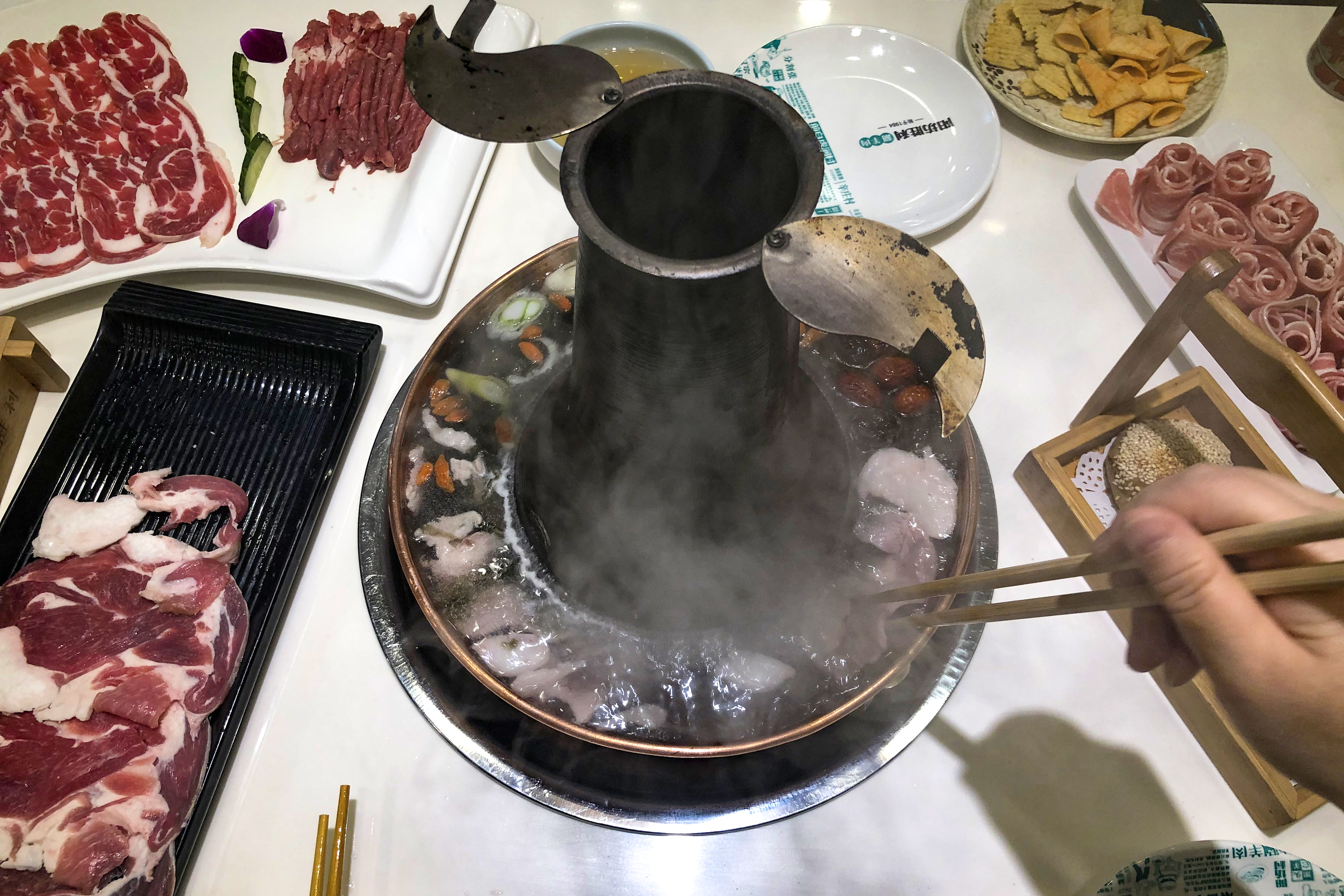 Raw mutton changes color after a few seconds. This photo has been taken in the country: China